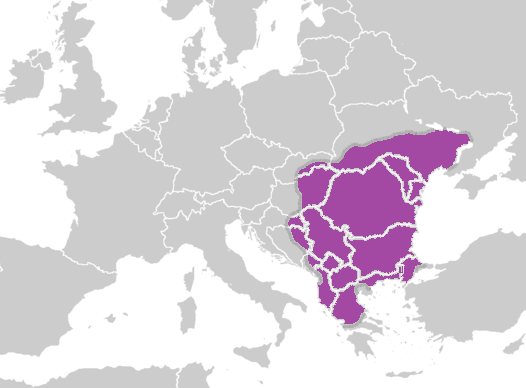 Map of the First Bulgarian Empire during the reign of Simeon I the Great (893 - 927)